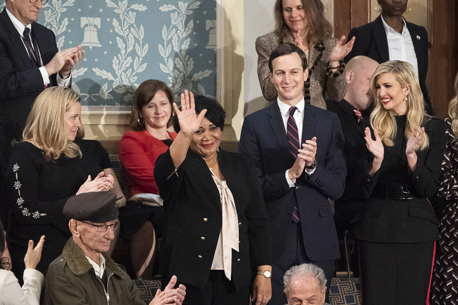 A tearful Alice Johnson, who was serving a mandatory life sentence without parole in a nonviolent drug case and was granted clemency by President Donald J. Trump in June of 2018, gestures toward President Trump from the special guests gallery Tuesday, Feb. 5, 2018, during the State of the Union Address at the U.S. Capitol in Washington, D.C. Johnson is accompanied (to her left) by Jared Kushner, advisor to the President, and his wife, Ivanka Trump, the President's eldest daughter. (Official White House Photo by Andrea Hanks)